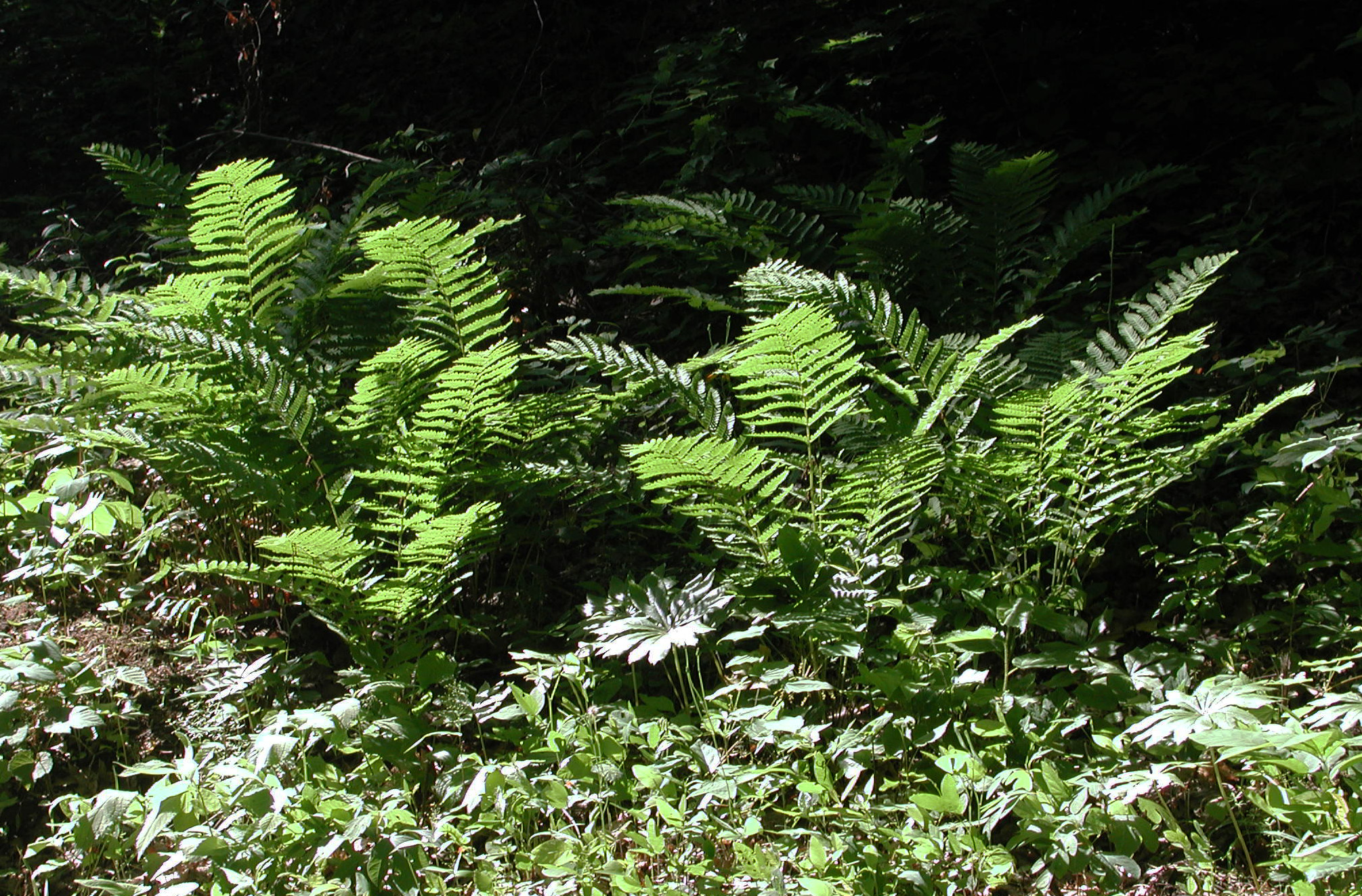 Interrupted fern, Osmunda claytoniana, on the roadside of King Hollow Road, Zaleski State Forest, Vinton County, Ohio